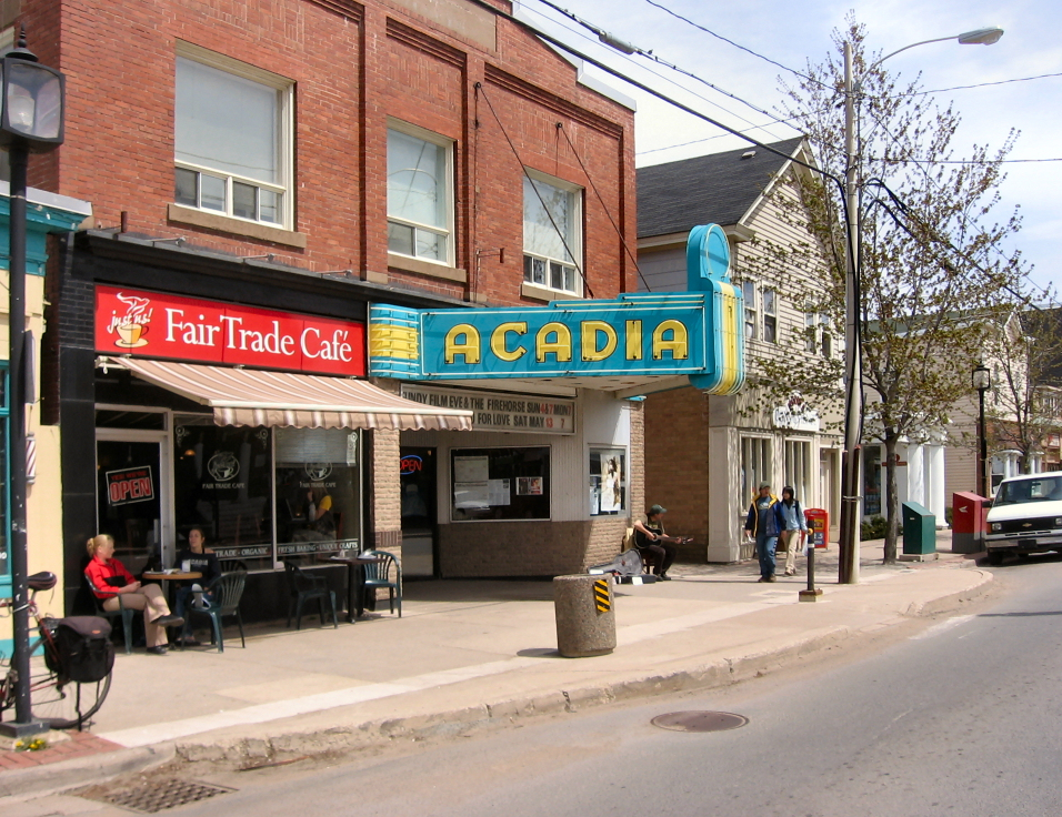 Grabshot of Wolfville streetscape. Straightened and enhanced in Paint Shop Pro.